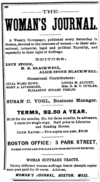 Ad for Womens Journal, published in Park St., Boston